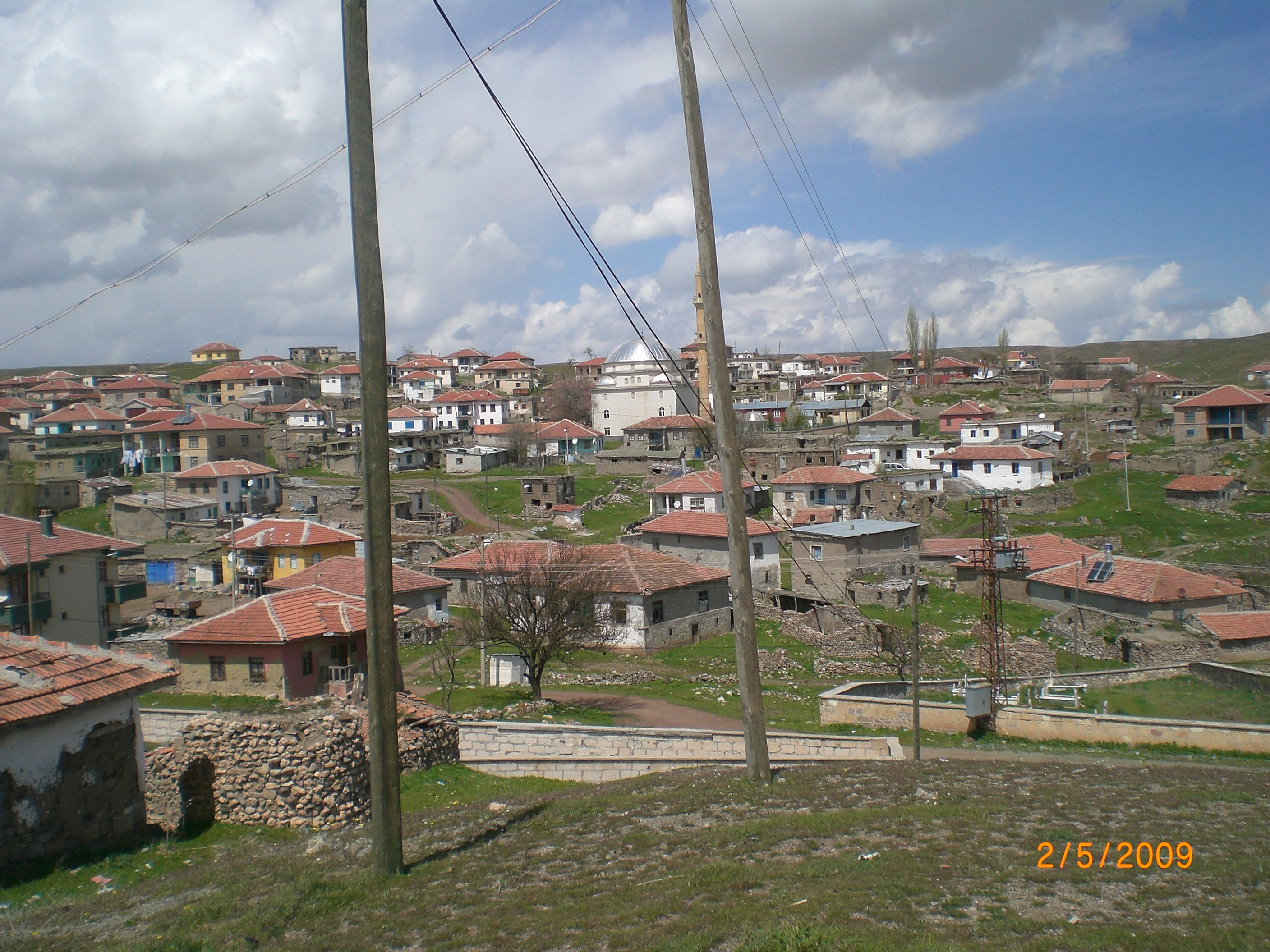 Salih Canpınar's impression of the Kömüşini village